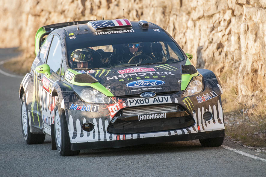 Wales Rally GB 2011 Alex Gelsomino,Ford Fiesta RS WRC,GBR,Great Orme,Großbritannien,Ken Block,Llandudno,Llandudno Community,Monster WRT,Motorsport,Rally,Rallye,Wales,Wales Rally GB